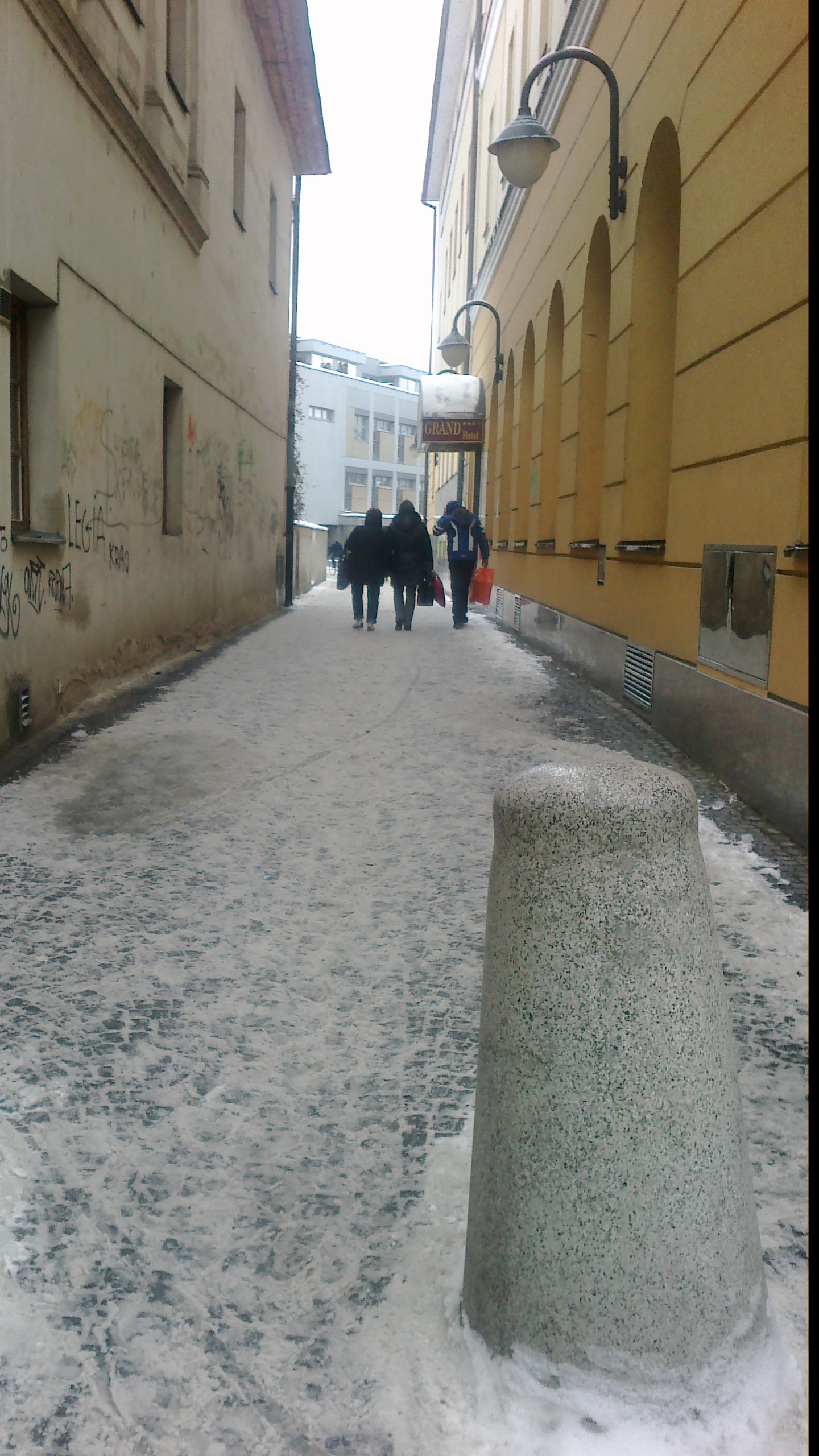 This is a "Kalinčiakova ulica".